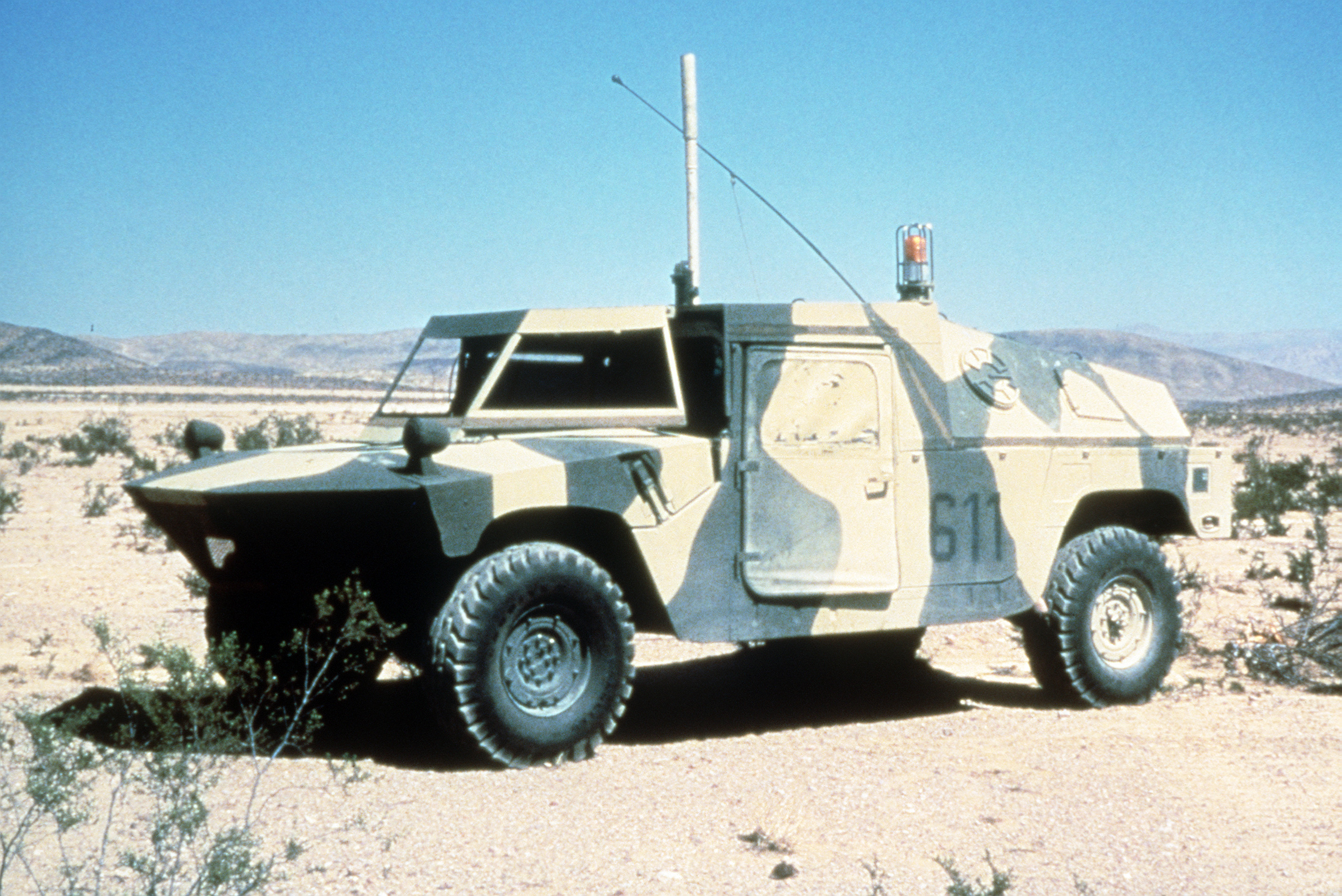 A left front view of an M998 multipurpose wheeled vehicle, modified to resemble a Soviet armored personnel carrier, parked in the desert at the National Training Center. The vehicle is operated by the 177th Armored Brigade in their role as an opposing force.Location: FORT IRWIN, CALIFORNIA (CA) UNITED STATES OF AMERICA (USA)